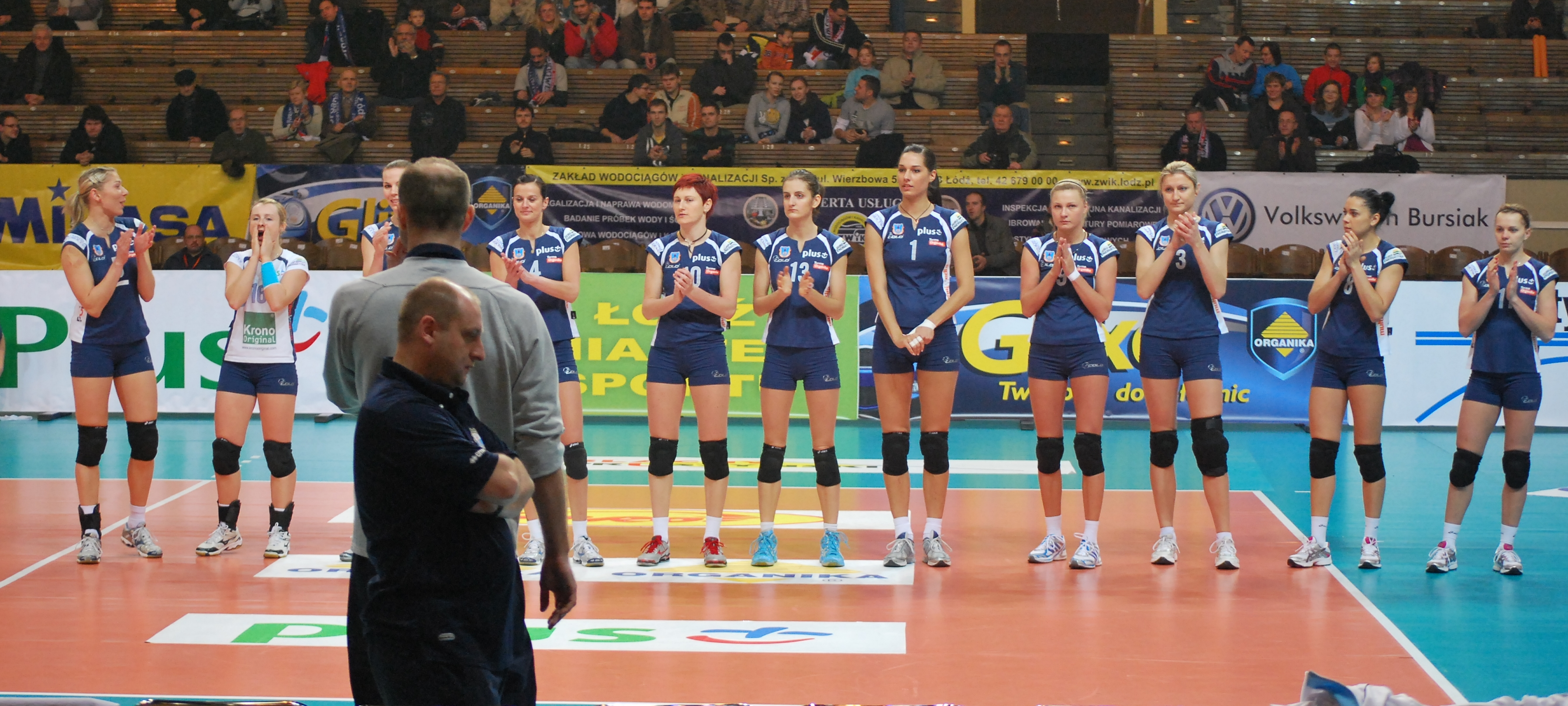 KPSK Stal Mielec, polish women's volleyball team